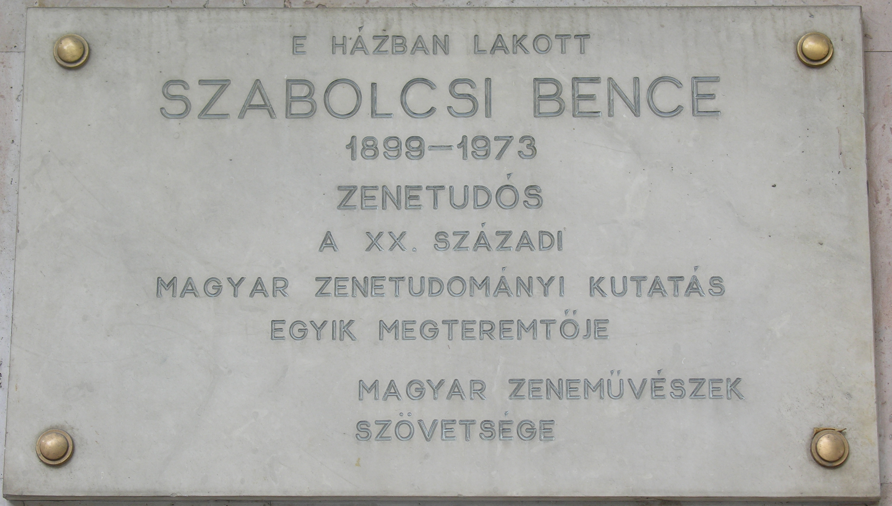 Commemorative plaque of Bence Szabolcsi in Budapest District XIII, Pozsonyi Street No 40